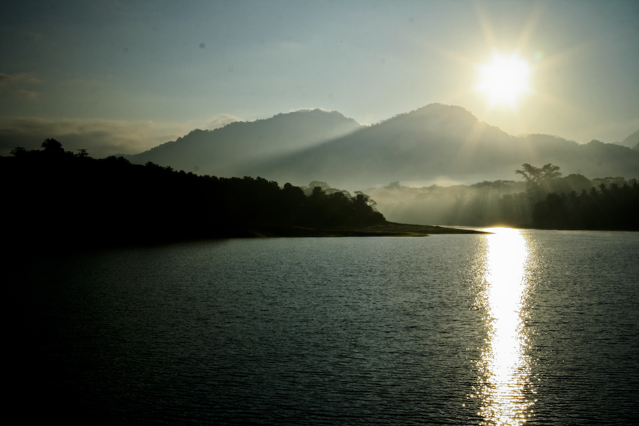 landscape 22, Sunrise oveer Palasari Reservoir, West Bali Location: Bali